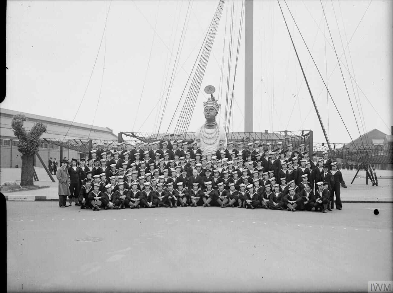 Mr W J Jordan, the New Zealand High Commissioner, with a very large group of New Zealand sailors at the naval training establishment HMS GANGES, Shotley. They are stood in front of the masthead and figurehead of HMS GANGES.